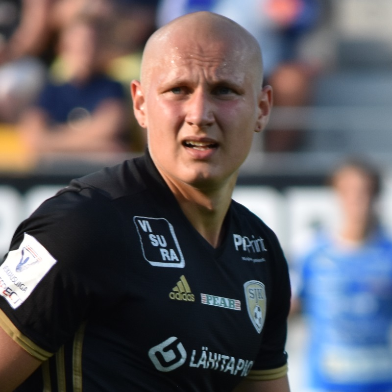 Association football player Johannes Laaksonen (SJK)